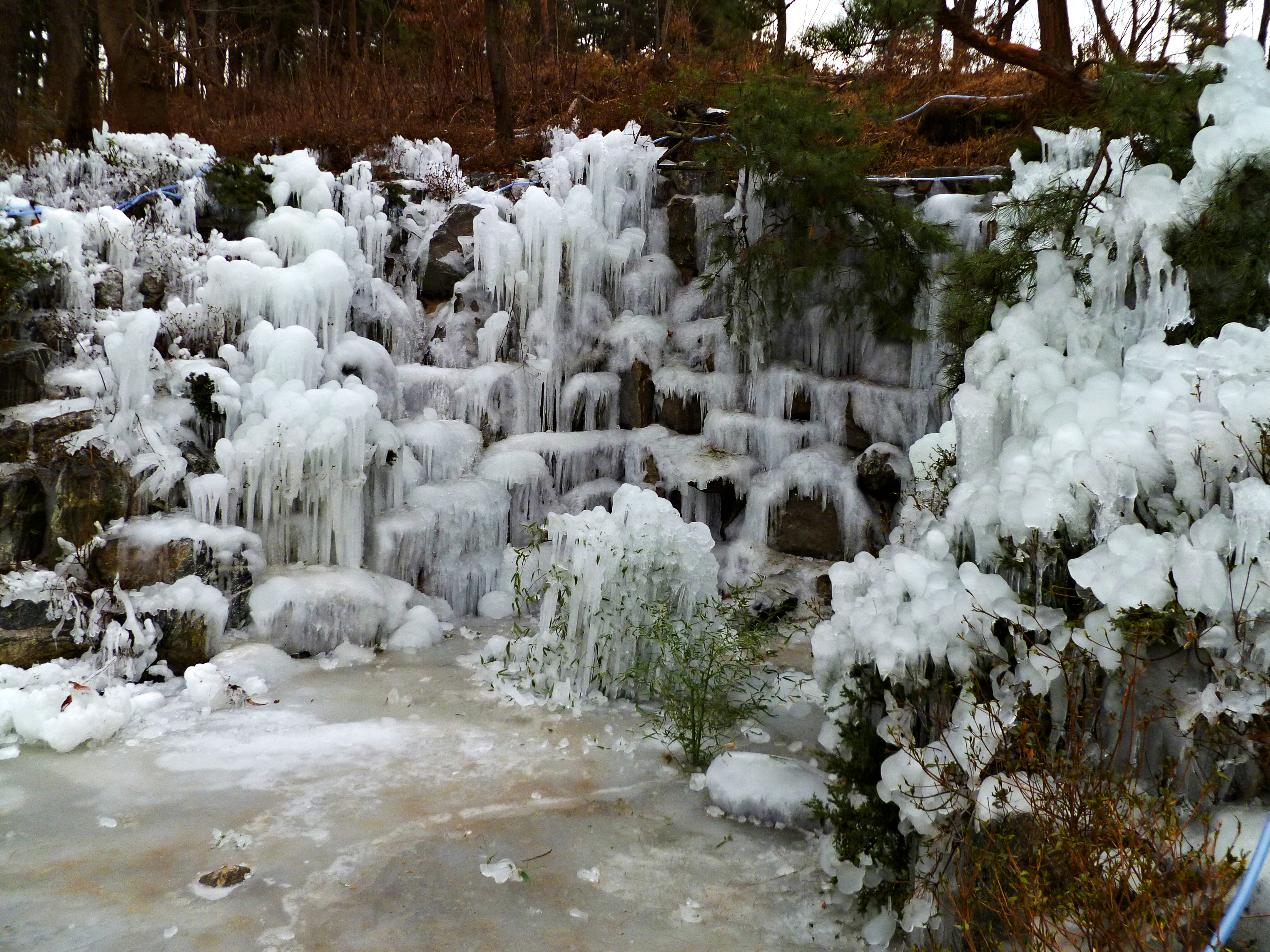 Winter at Seonam Lake Park, Ulsan